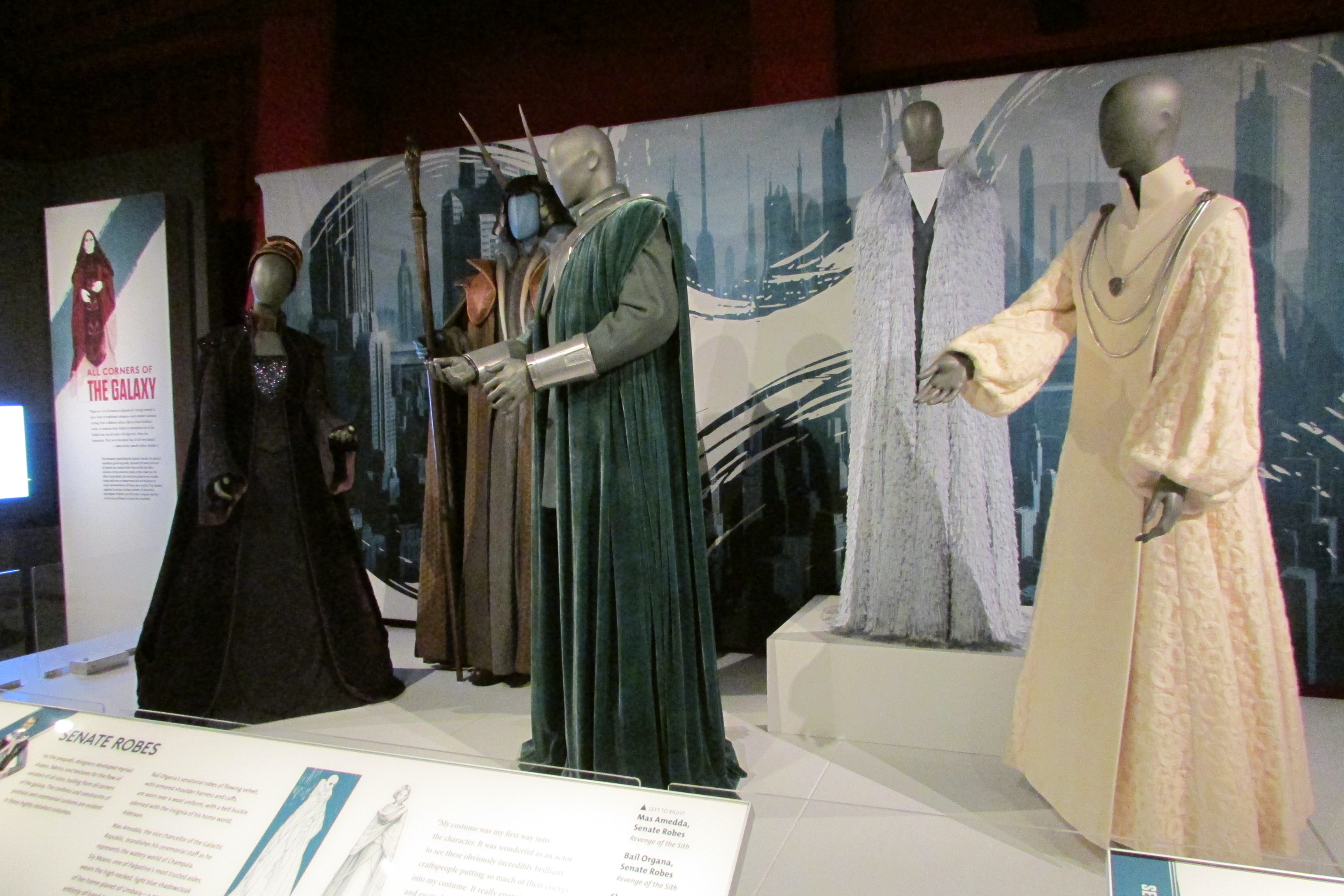 Costume of the Council of the Republic at the EMP in Seattle.